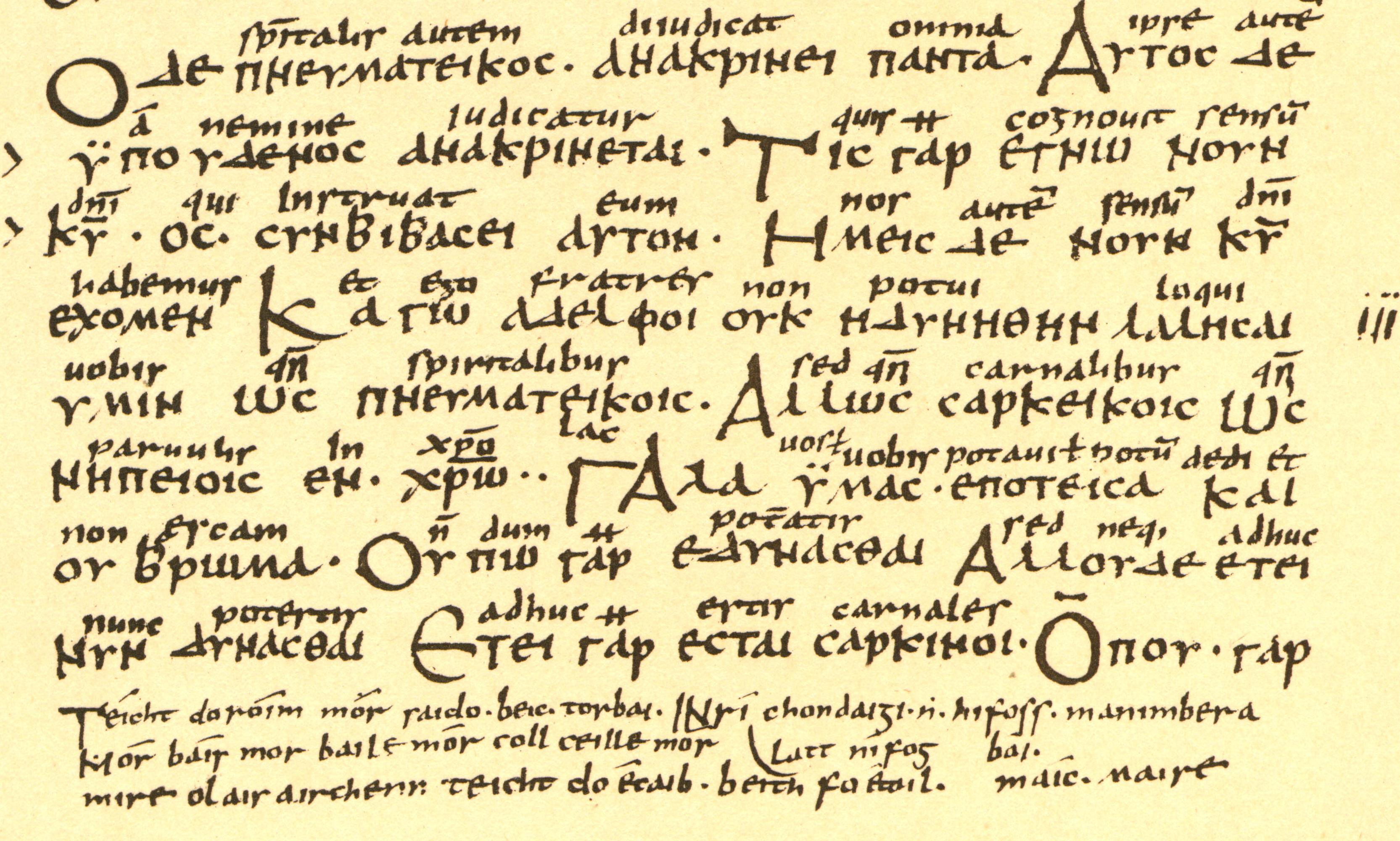 23 folio recto of the codex; below the biblical text (1 Cor 2-3) it contains Irish Verse (three lines)